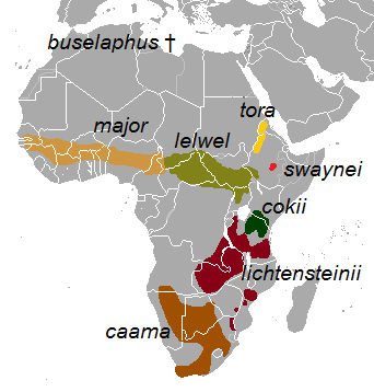 Present range of the subspecies/species of Alcelaphus. according to Jonathan Kingdon: The Kingdon Field Guide to African Mammals. A&C Black Publishers, London 1997 [2008], ISBN 978-0-7136-6513-0 (476 pages). IUCN SSC Antelope Specialist Group 2008. Alcelaphus buselaphus. In: IUCN 2011. IUCN Red List of Threatened Species. Version 2011.2. . Downloaded on 05 May 2012. Groves, C., P., Leslie Jr, D., M. (2011). Family Bovidae (Hollow-horned Ruminants). (444-779). In: Wilson, D. E., Mittermeier, R. A., (Hrsg.). Handbook of the Mammals of the World. Volume 2: Hooved Mammals. Lynx Edicions, 2009. ISBN 978-84-96553-77-4